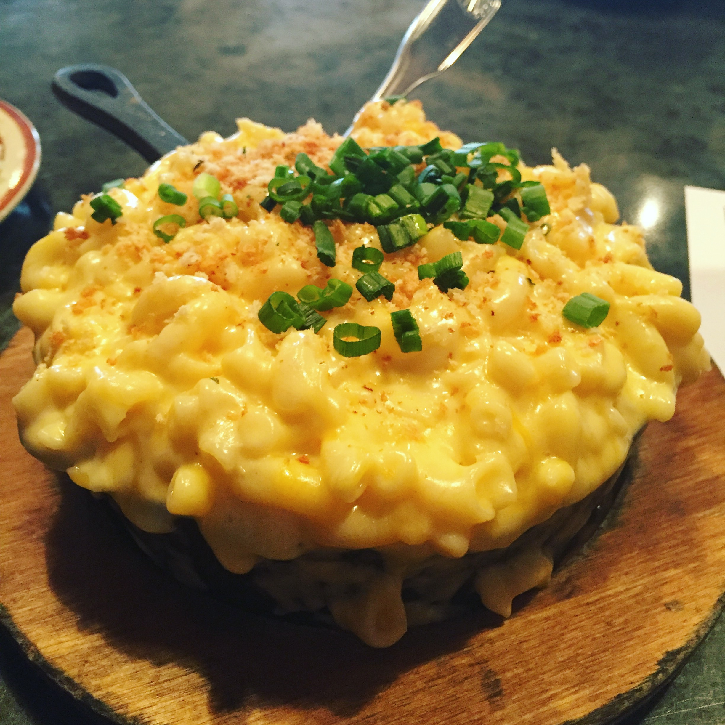 Mac n Cheese from BRC Gastropub